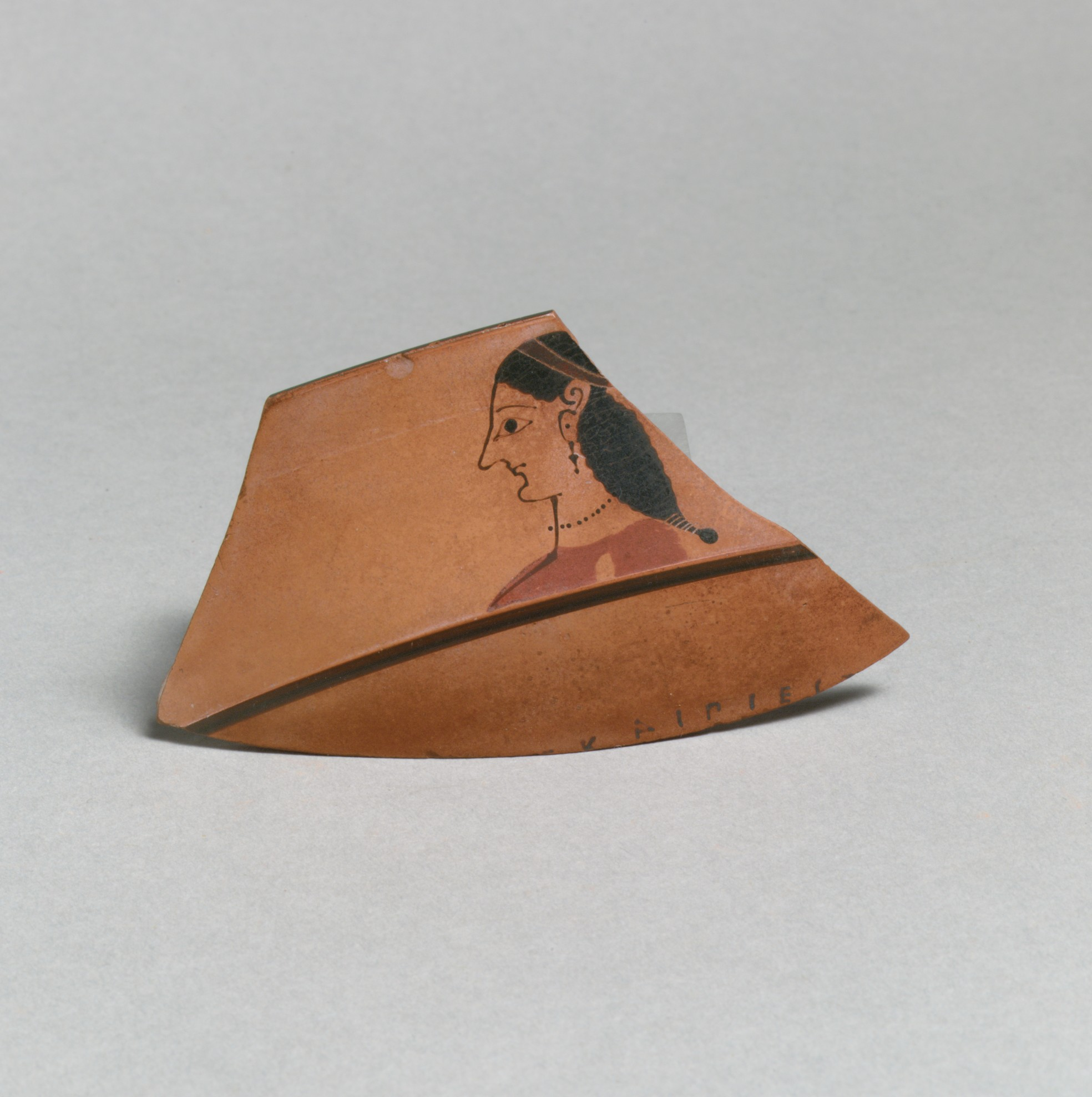 Exterior, bust of a woman; Inscribed "Hail and drink this". The rendering of the woman's face and neck in glaze outline anticipates the red-figure technique, introduced about 530 B.C.